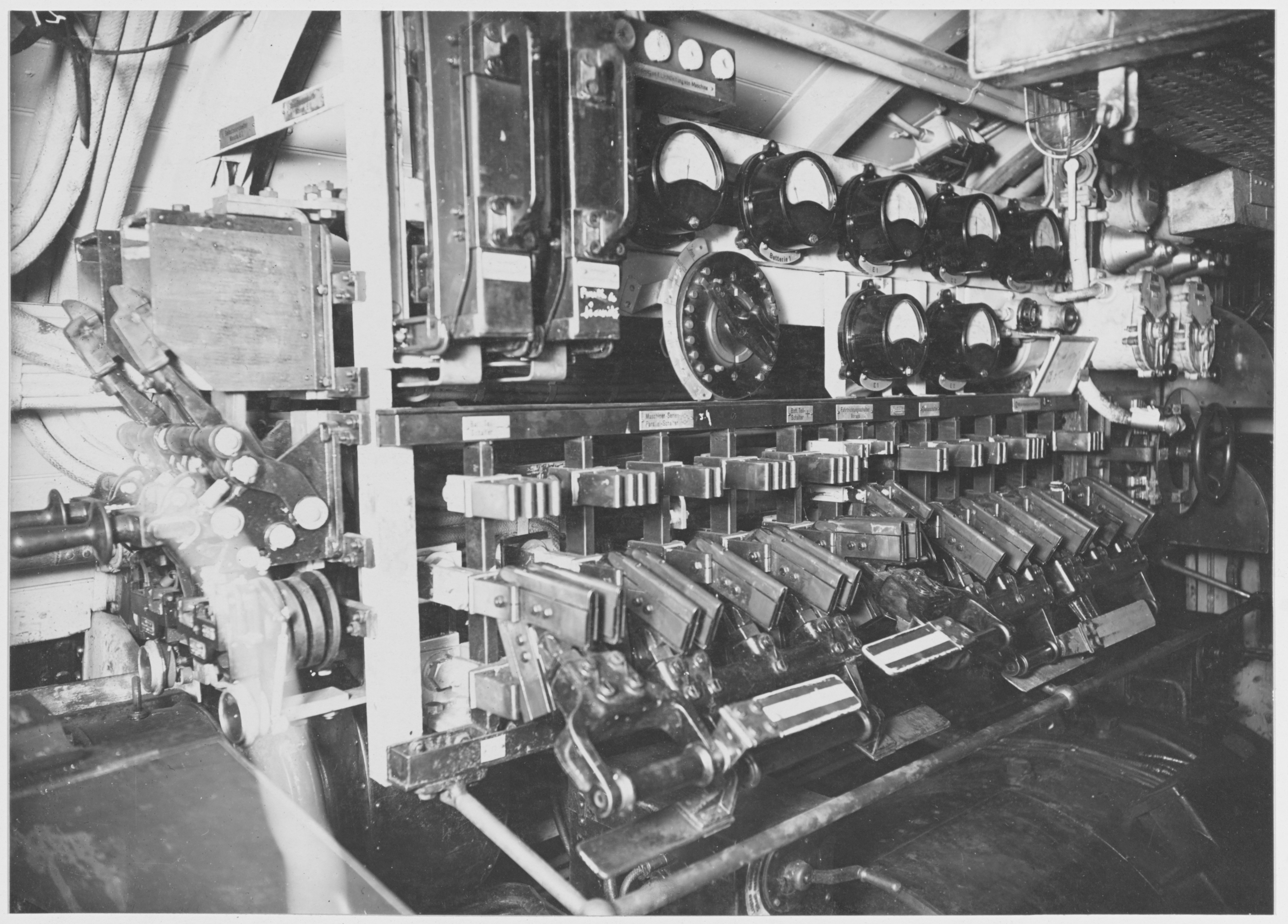 Title: German Submarine UC-58 Caption: Interior of a German submarine.